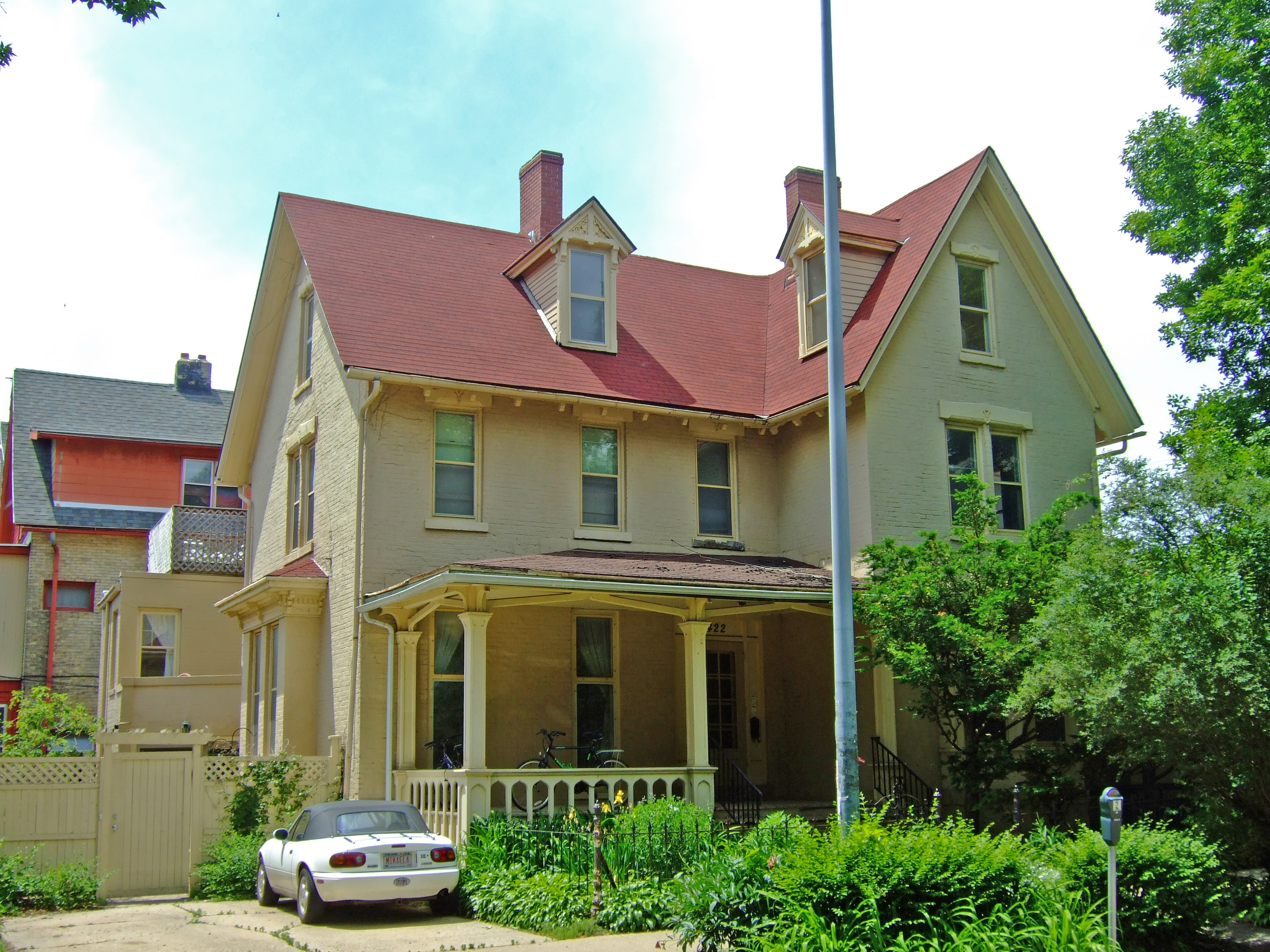 Judge Arthur B. Braley House (ca. 1873) in Madison, Wisconsin. Neo-Grec style, dormers with Aesthetic detailing. Remodeled Gothic revival porch ca. 1900 by either Lew Porter or Claude and Starck. Added to the National Register of Historic Places in 1980.